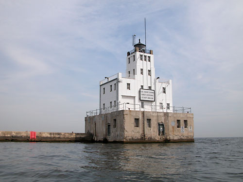 Milwaukee Breakwater Lighthouse ca. 2005